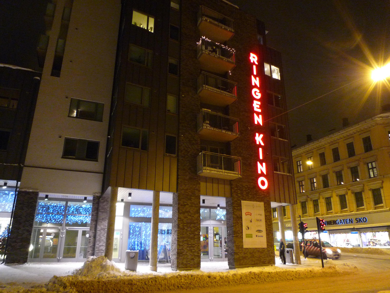 Ringen kino, a movie theatre in Oslo, Norway